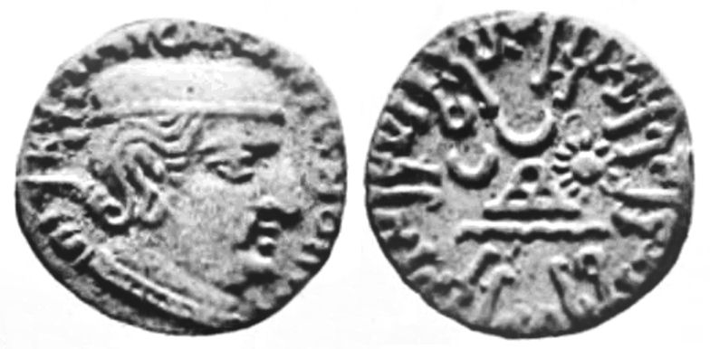 Jivadaman